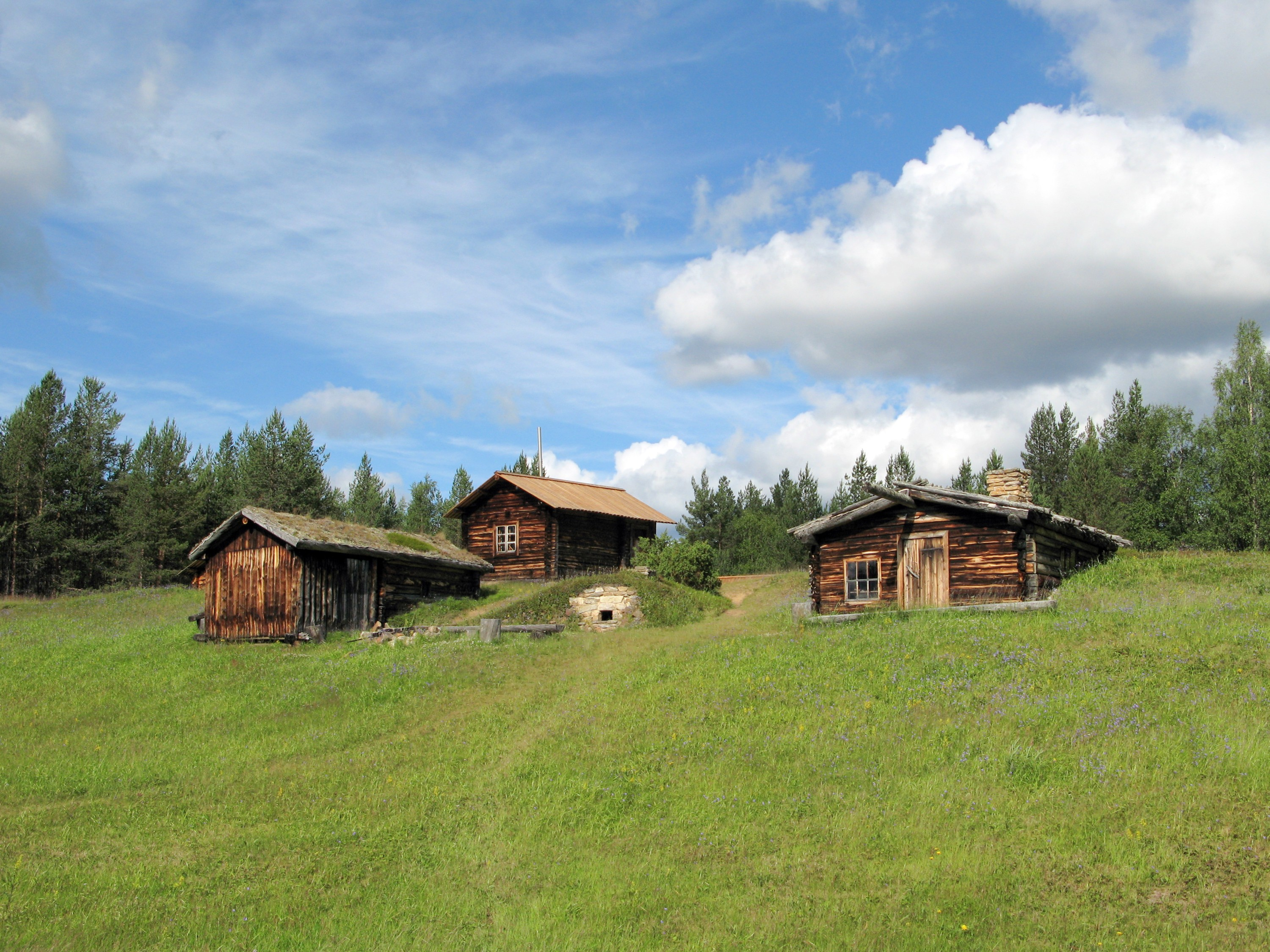 Buildings of legendary hermit Raja-Jooseppi in Inari municipality, Finland.